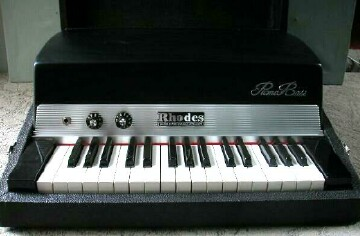 Photo by Peter Jackson